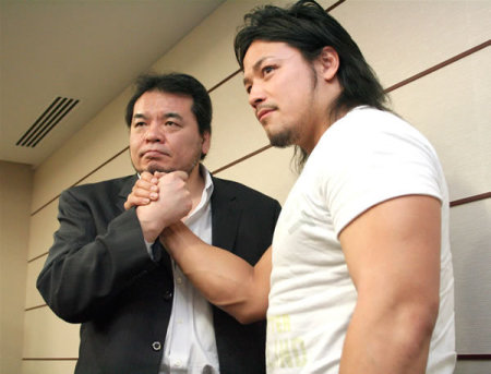 Japanese professional wrestler Mitsuharu Misawa (left, 1962-2009) and Go Shiozaki (right) on May 6, 2009 in Nippon Budokan.